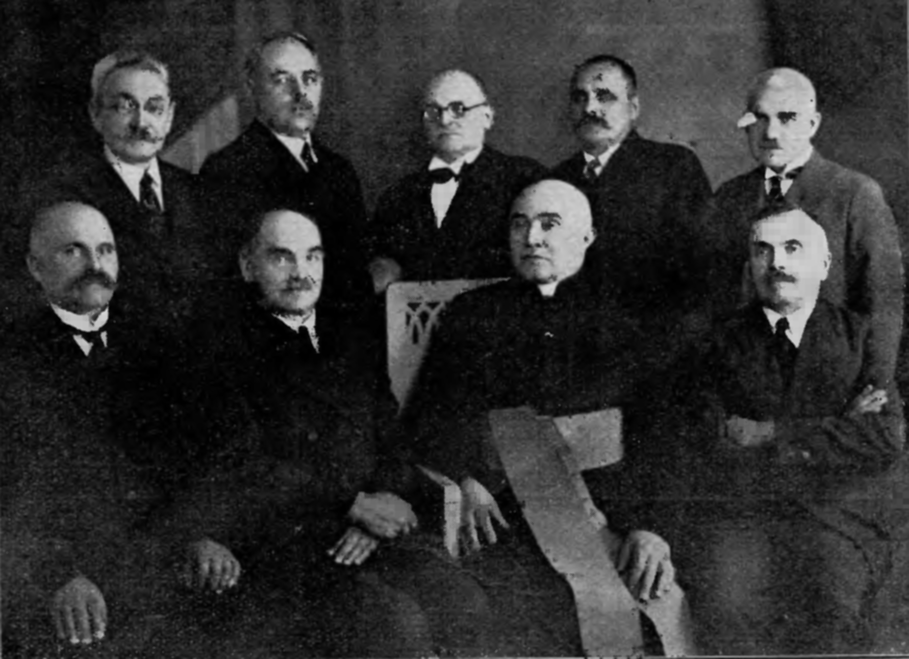 TG Sokol Czeladź 1936.